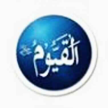 Al-Qayyūm / The Subsisting / The Guardian is a name of God in Islam, is a name of Allah.